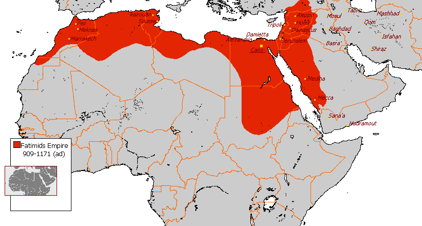 Fatimid Empire (910-1171). The island of Sicily is included though not colored red.